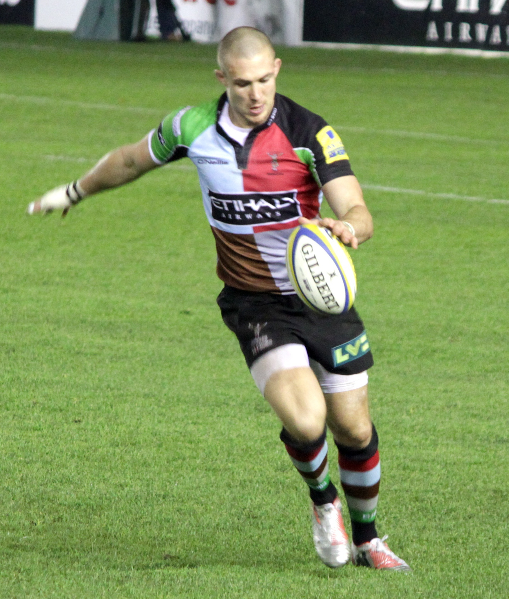 Mike Brown clearing...